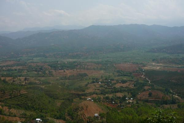 View of scenic Panchkhal Valley